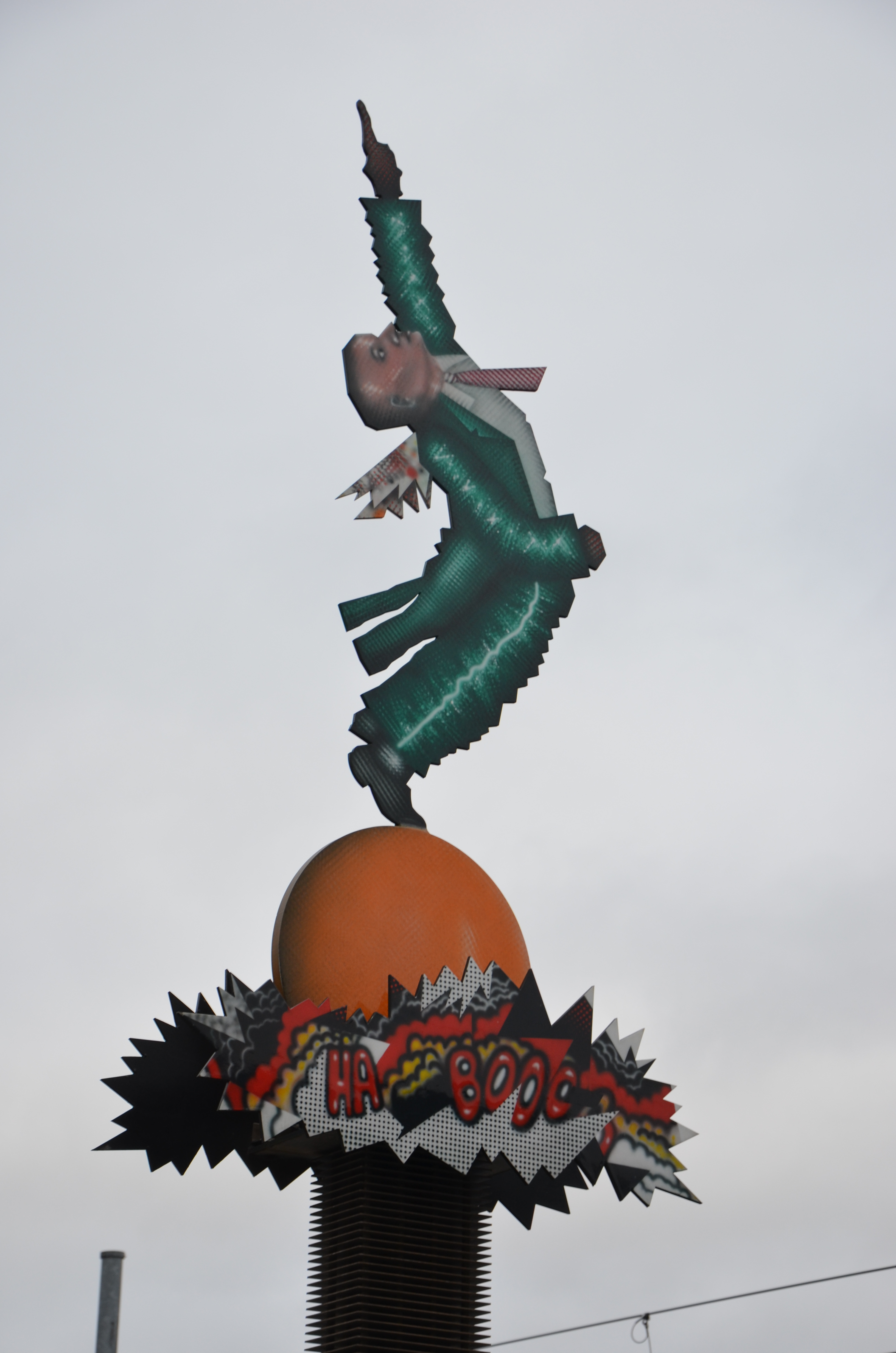 Leif Tjerneds konst på Gullmarsplan